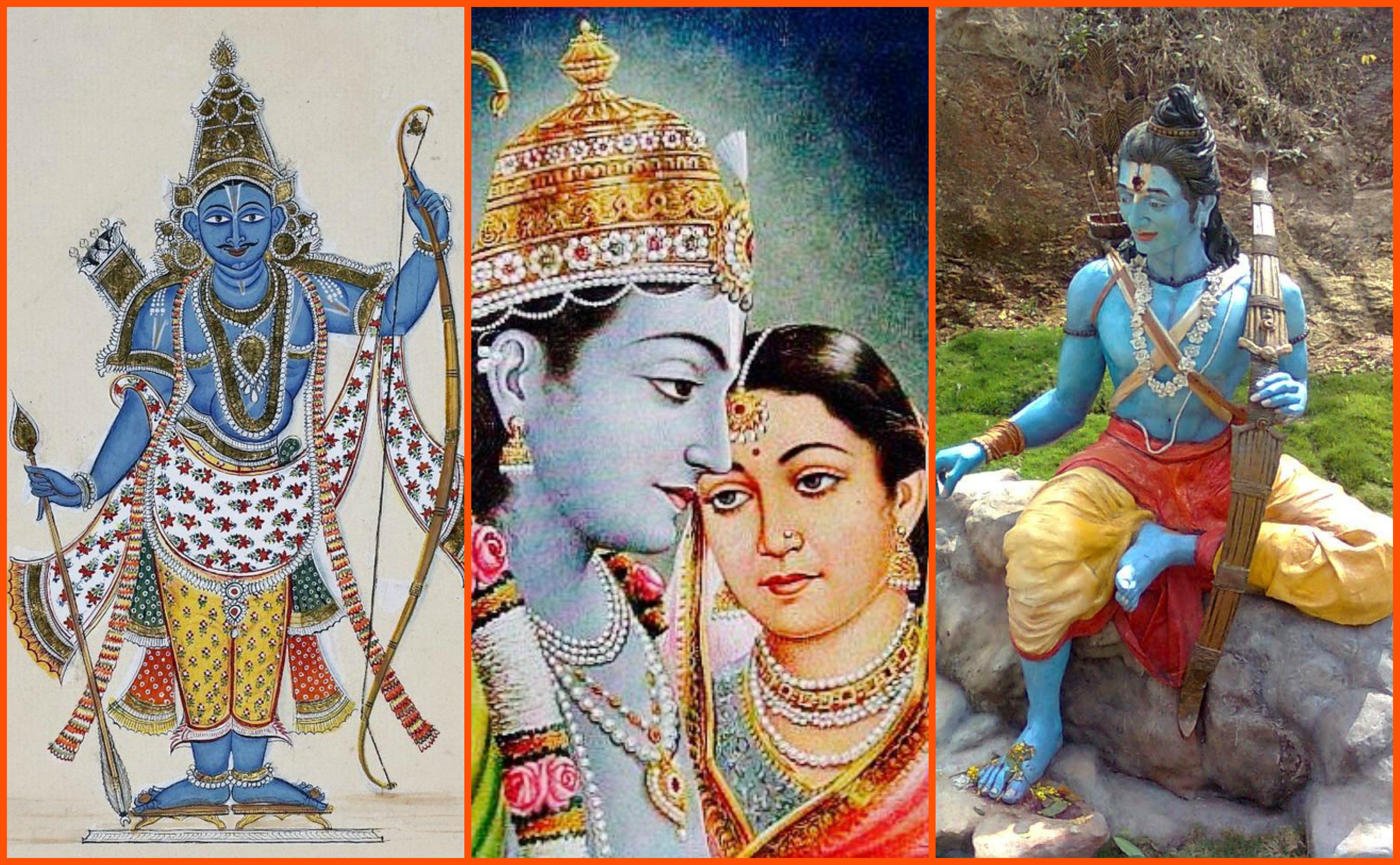 The iconography of the seventh avatar of Vishnu is diverse. He is called Rama, and by numerous other names such as Ramachandra, Dasarathi or Raghava. His legends are found in South Asia and Southeast Asia, particularly in the form of epics such as the Ramayana. A derivative work on the following wikimedia images: Lord Rama with arrows.jpg Ram and Sita as a couple (bazaar art, 1950's).jpg Sabari Rama statues at Gangadhara Simhachalam.jpg